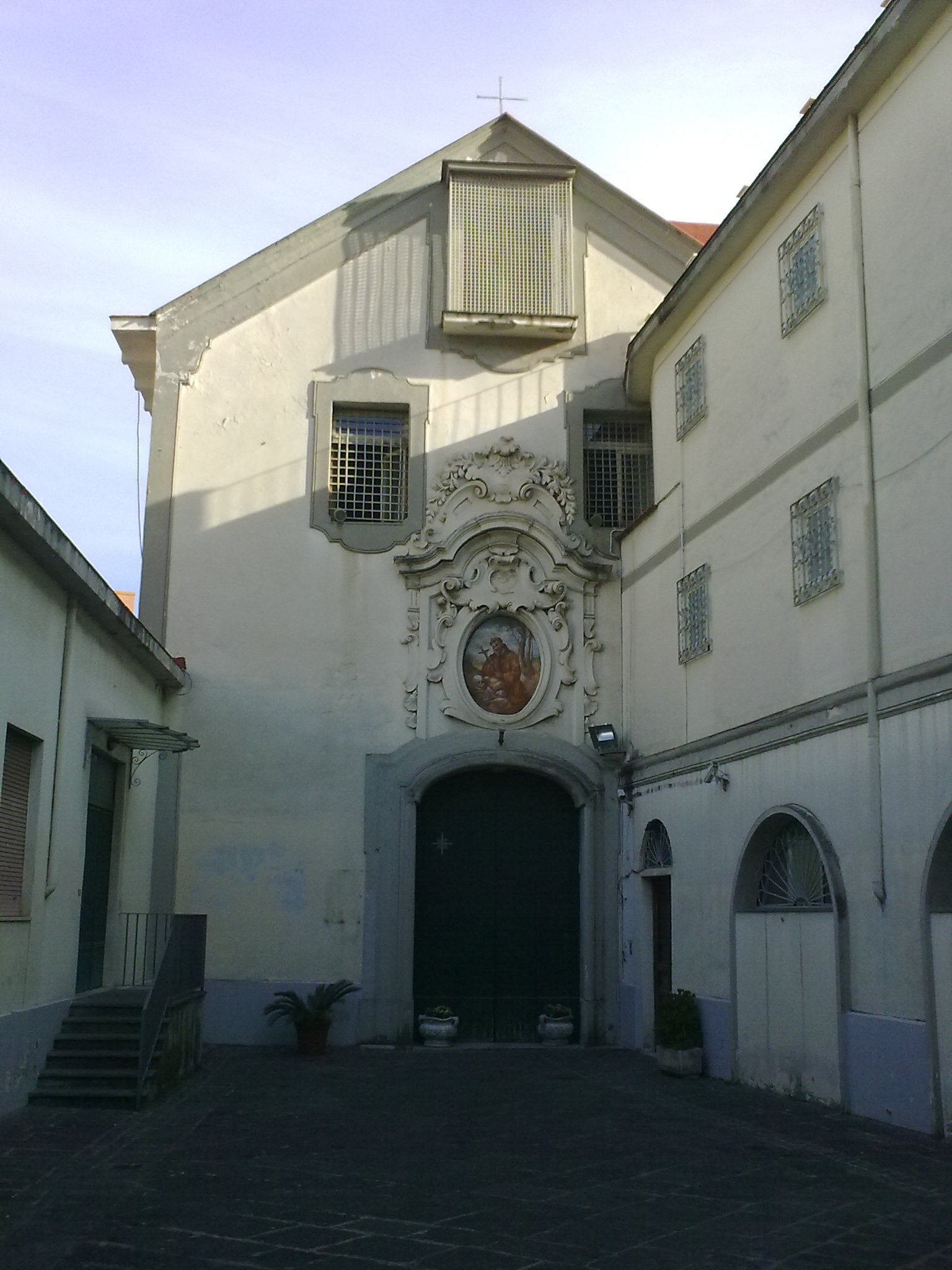 Nocera Inferiore, Monastery of Santa Chiara